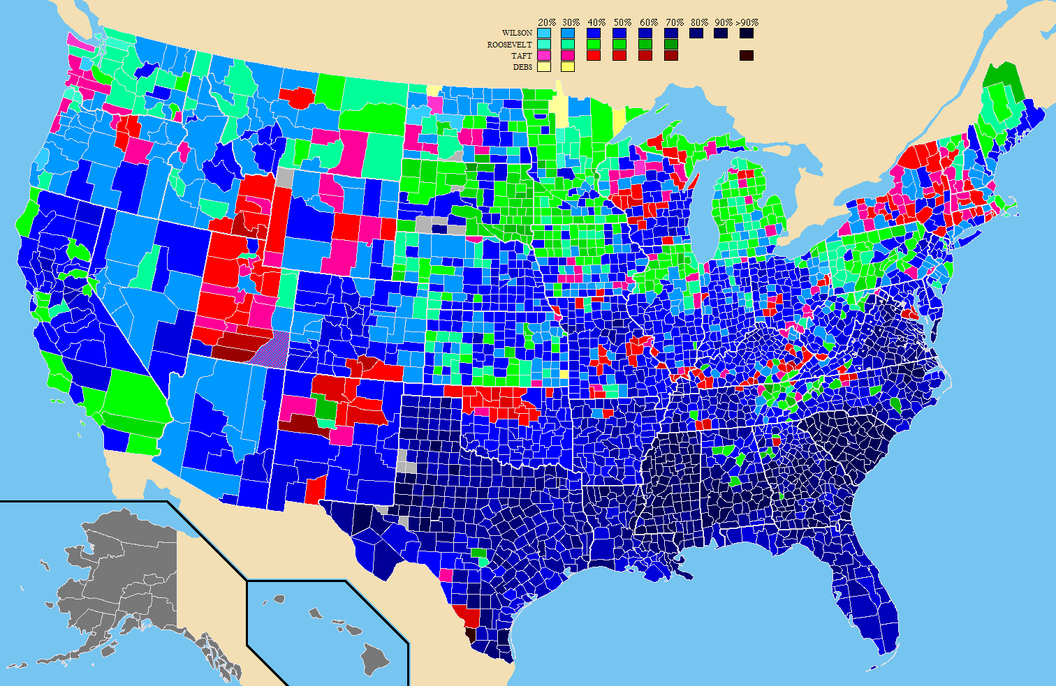 Map showing the results by county of the 1912 United States presidential election specifically identifying the percentage recieved by the winning candidate in each county. Counties with no information or results are in grey.